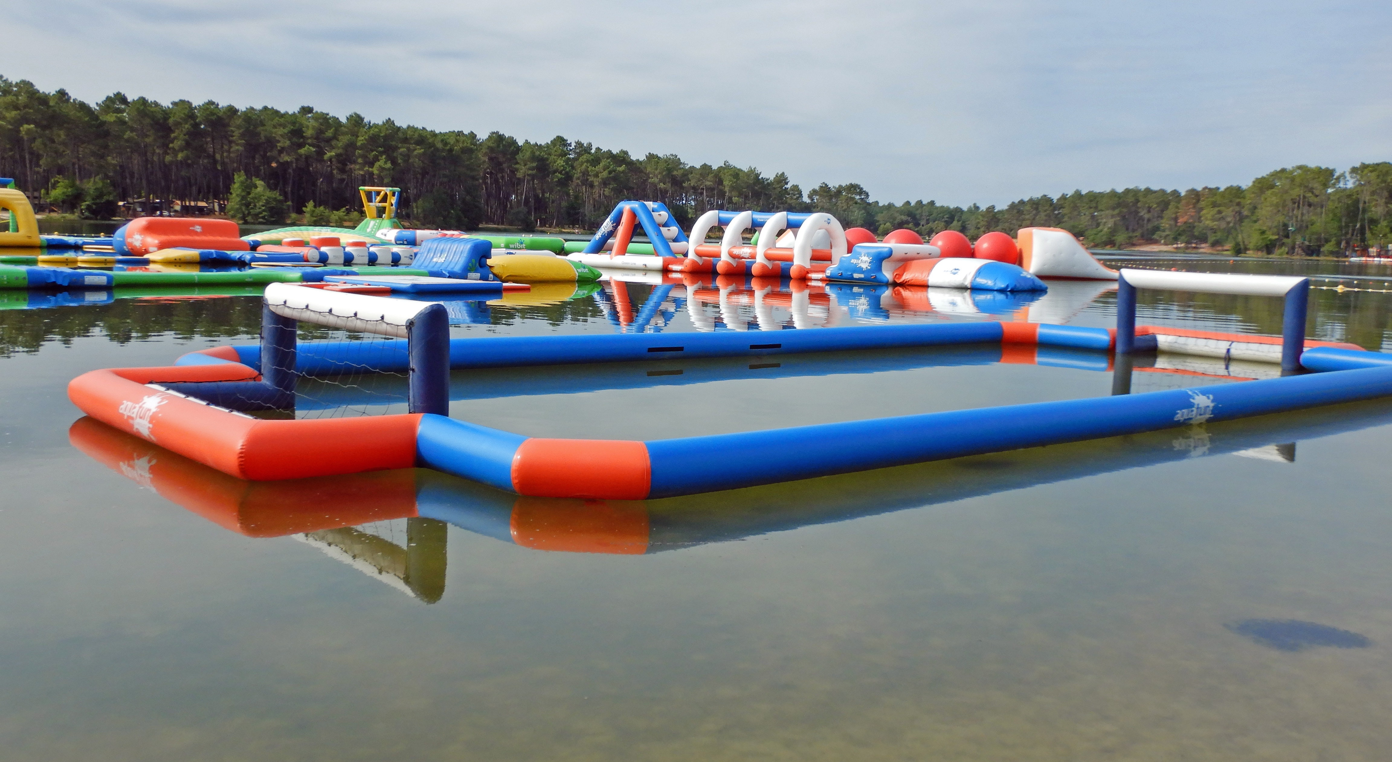 Clarens lake, in Lot-et-garonne department, in south-west of France (artificial lake)